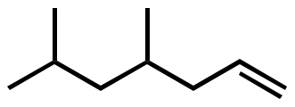 one of several isomers of propylene trimer